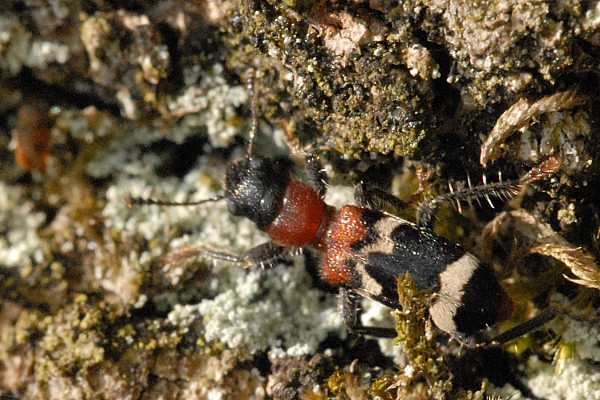 Thanasimus formicarius from Commanster, Belgian High Ardennes .